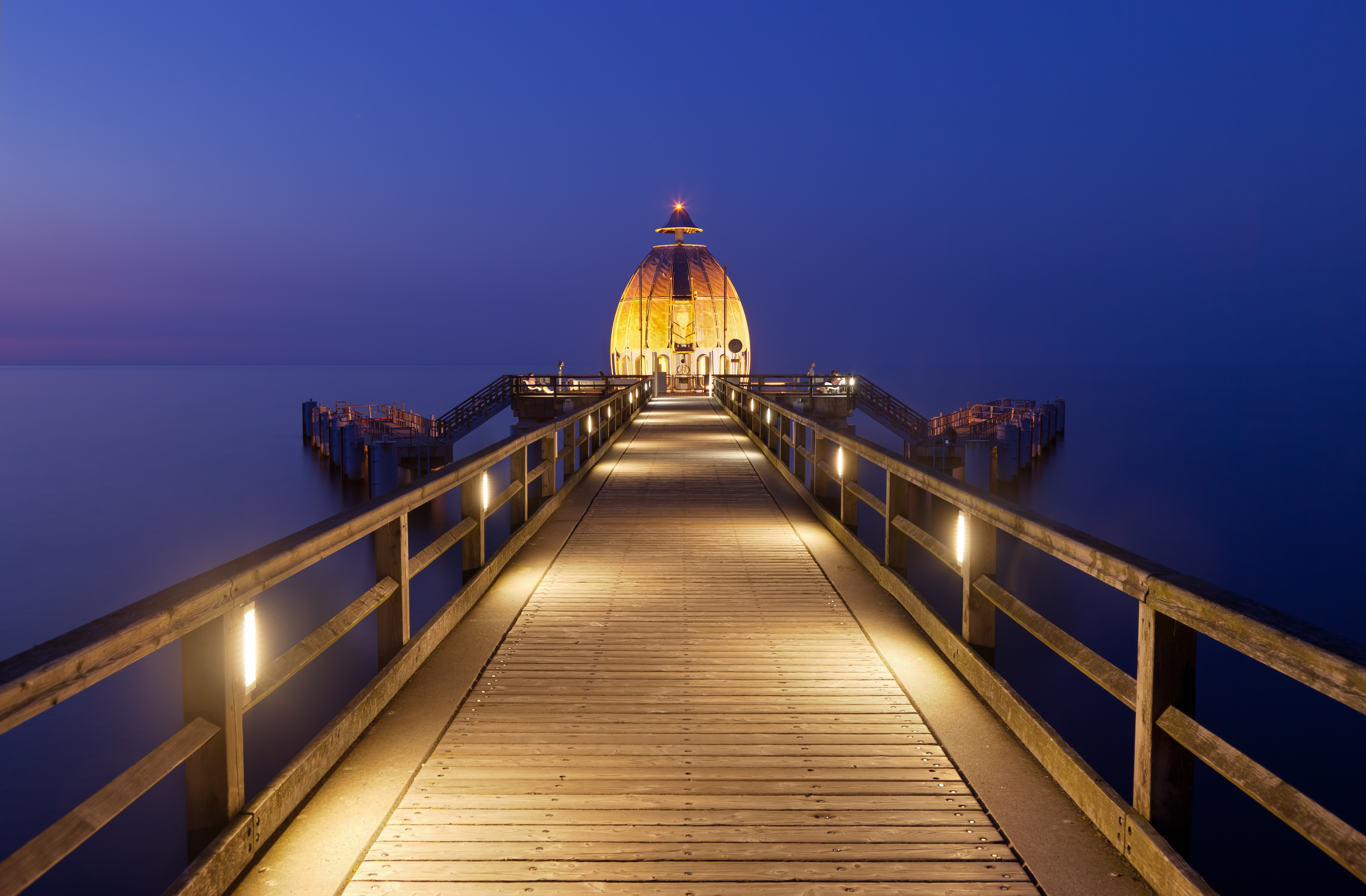 northeastern part of Sellin Pier